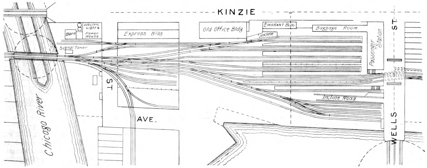 Plan of the track at Wells Street Station, Chicago, Illinois